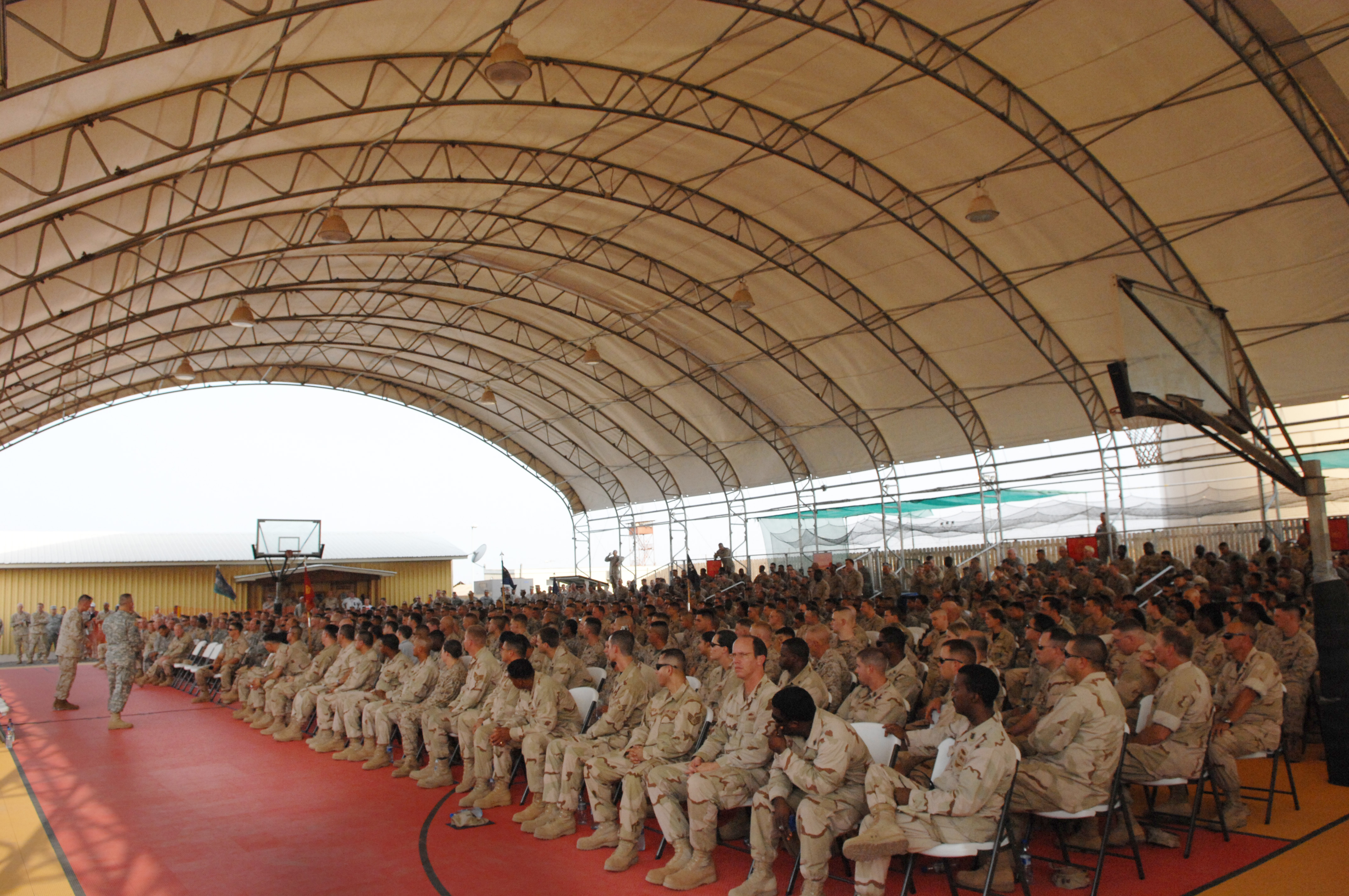 Pace in Djibouti - Chairman of the Joint Chiefs of Staff U.S. Marine Gen. Peter Pace conducts a town hall meeting with approximately 1,200 troops in the "Thunder Dome" at Camp Lemonnier, Djibouti, Aug. 14, 2007. Defense Dept. photo by U.S. Air Force Staff Sgt. D. Myles Cullen